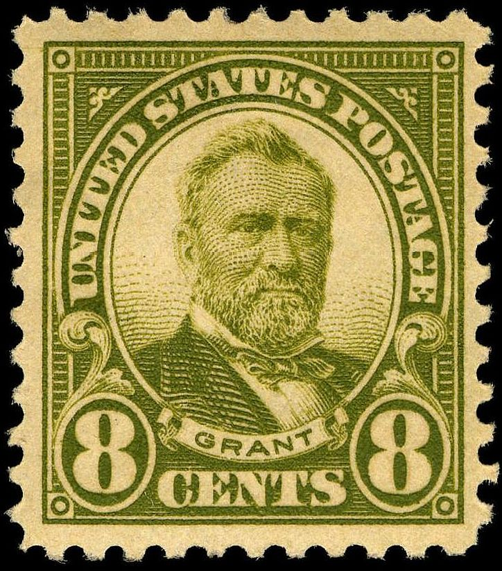 Image of Ulysses S. grant on U.S. Postage, issue of 1923